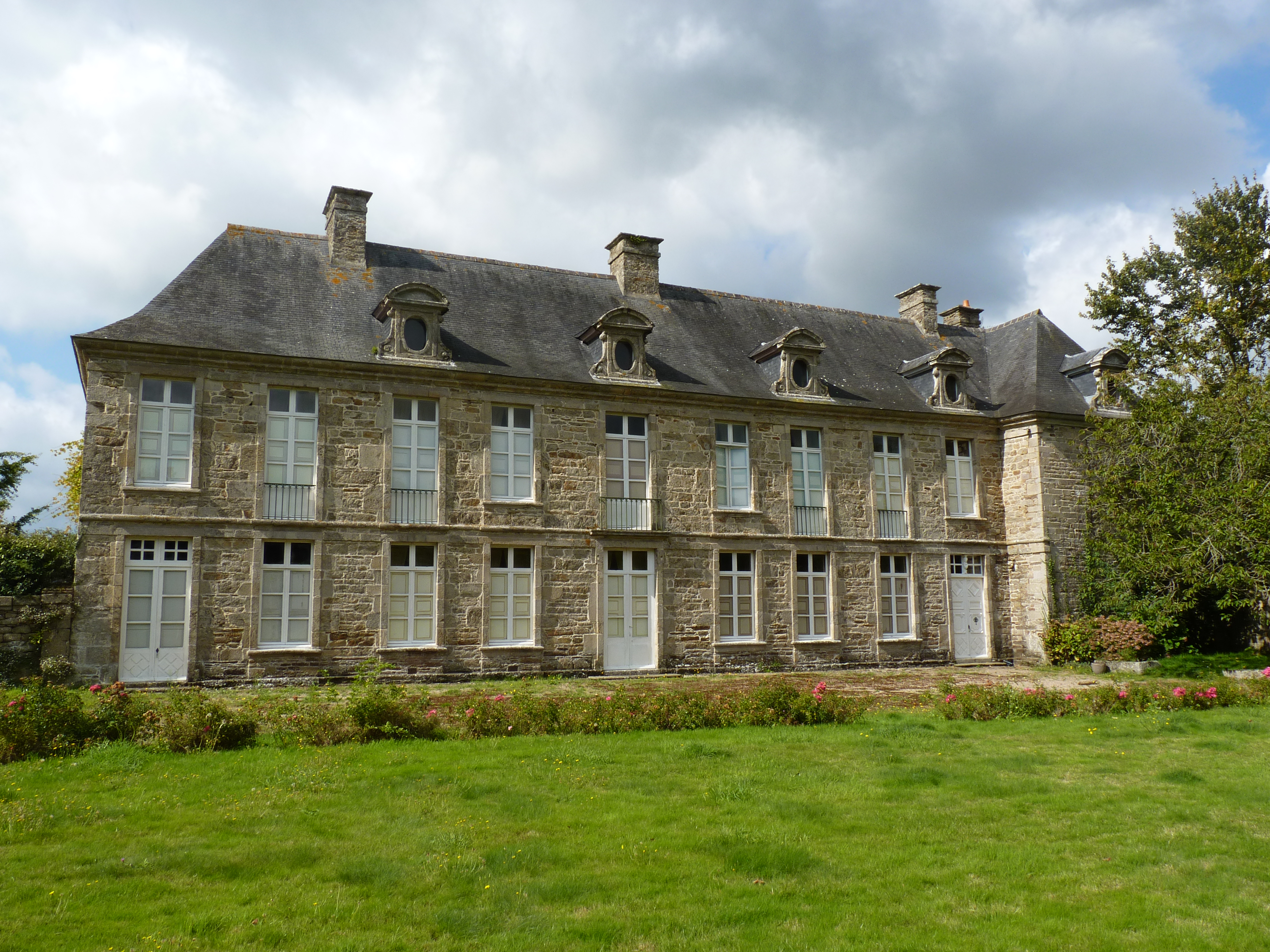 Château de Kéranno à Grâces, vue jardin, 17ème et 18ème siècle